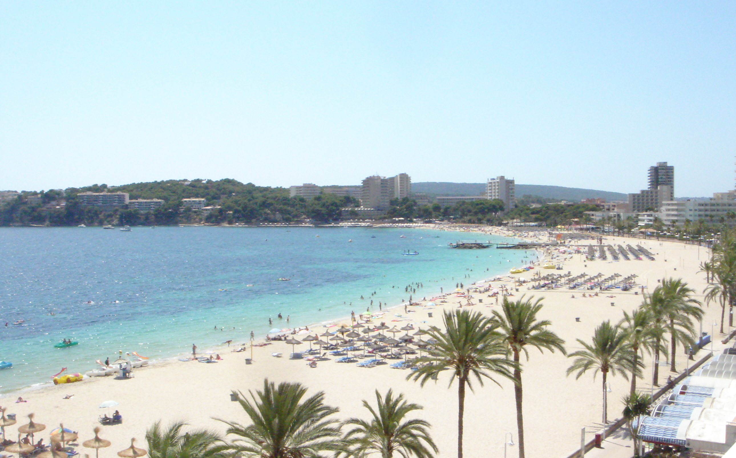 Mallorca, Magaluf, beach